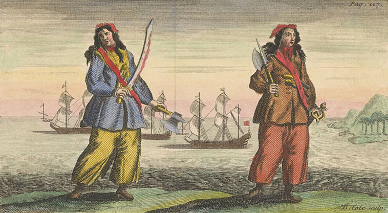 Ann Bonny and Mary Read convicted of Piracy Novr. 28th. 1720 at a Court of Vice Admiralty held at St. Jago de la Vega in a Island of Jamaica.: a copper engraving[1]